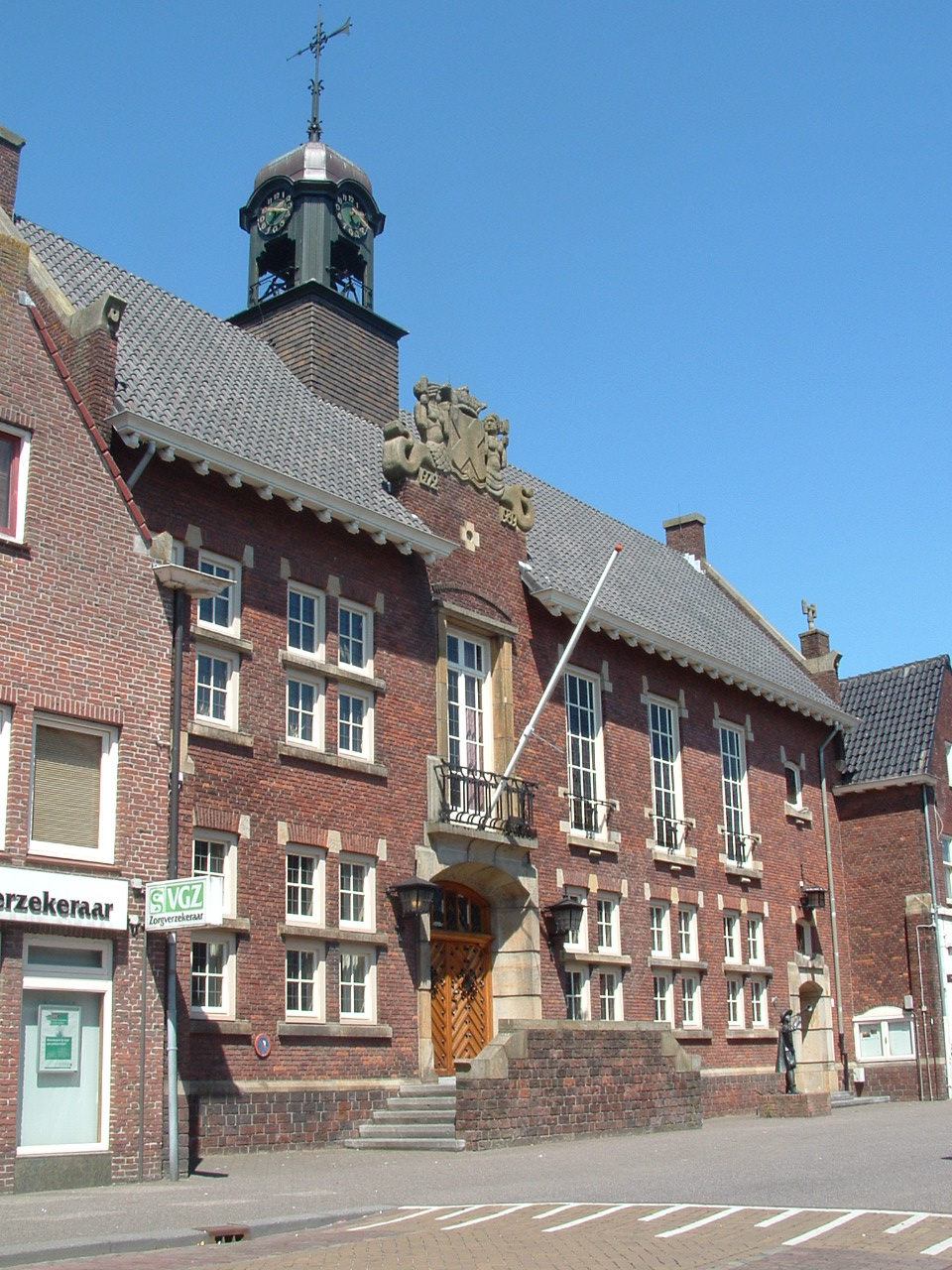 Former city hall of the Dutch town of Steenbergen.